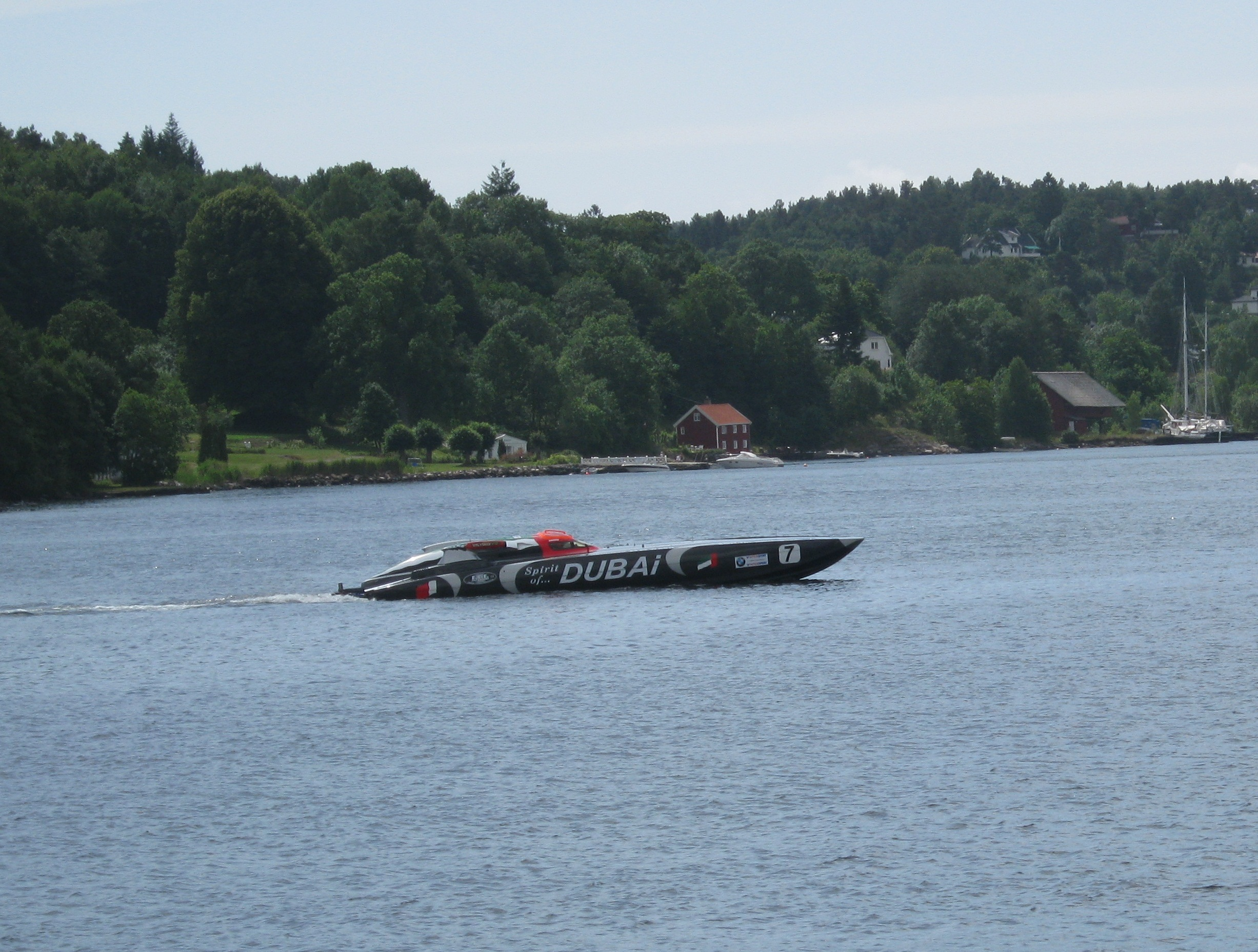 Spirit of Dubai 7 @ Norwegian Grand Prix in Arendal Norway, Pole Position.